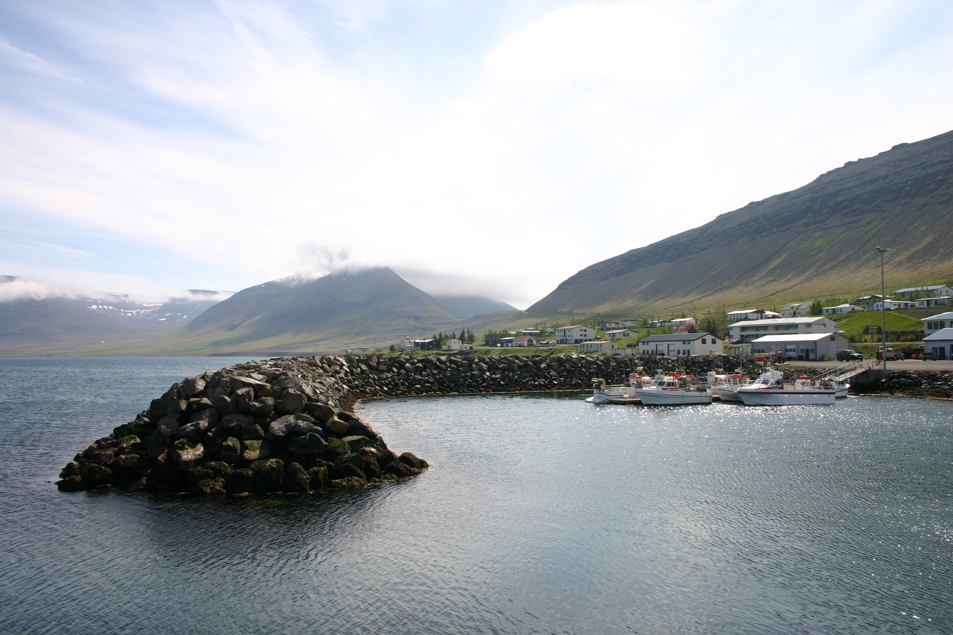 Þingeyri, Westfjords, Iceland. June 2008.